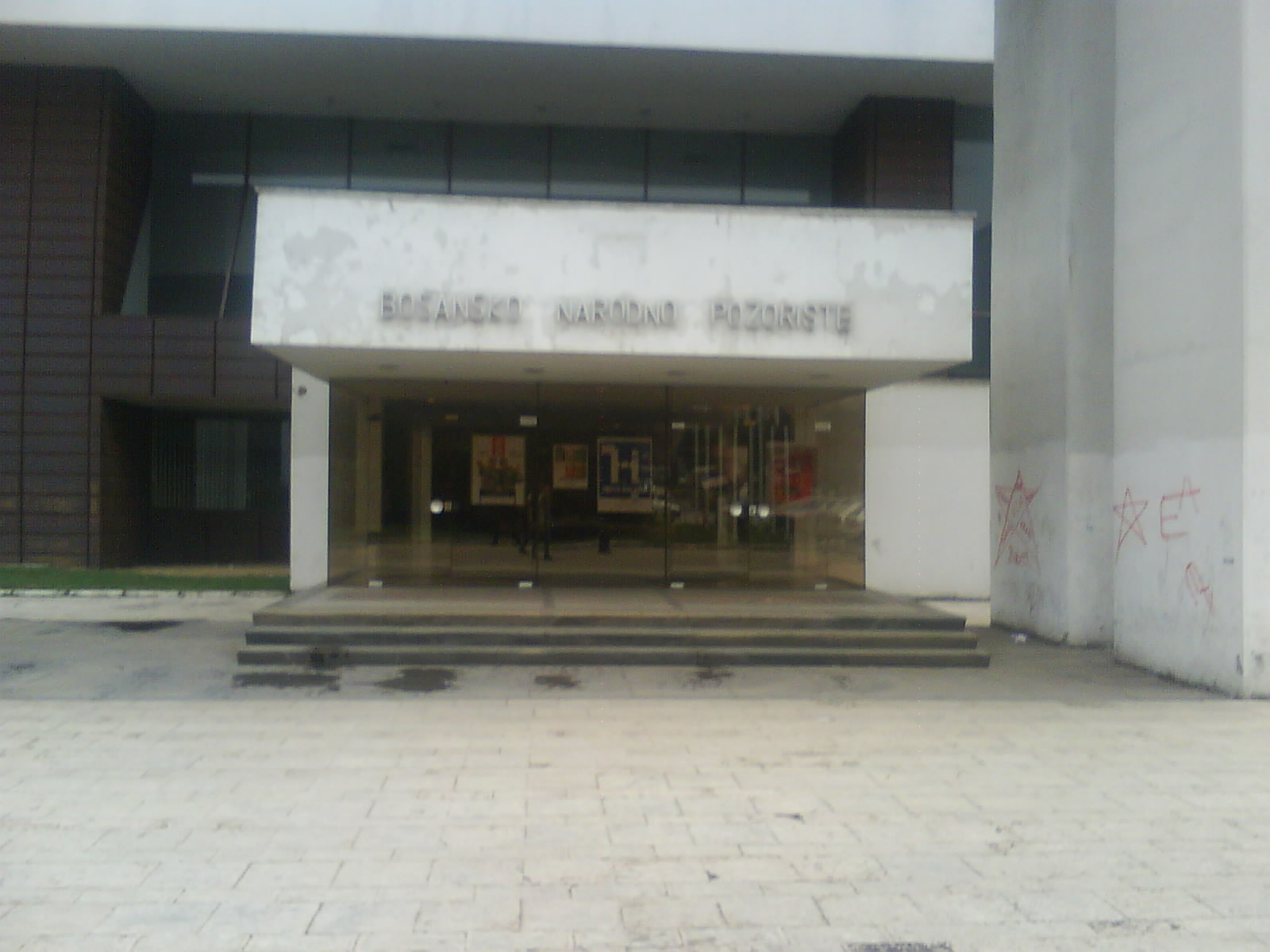 city of Zenica